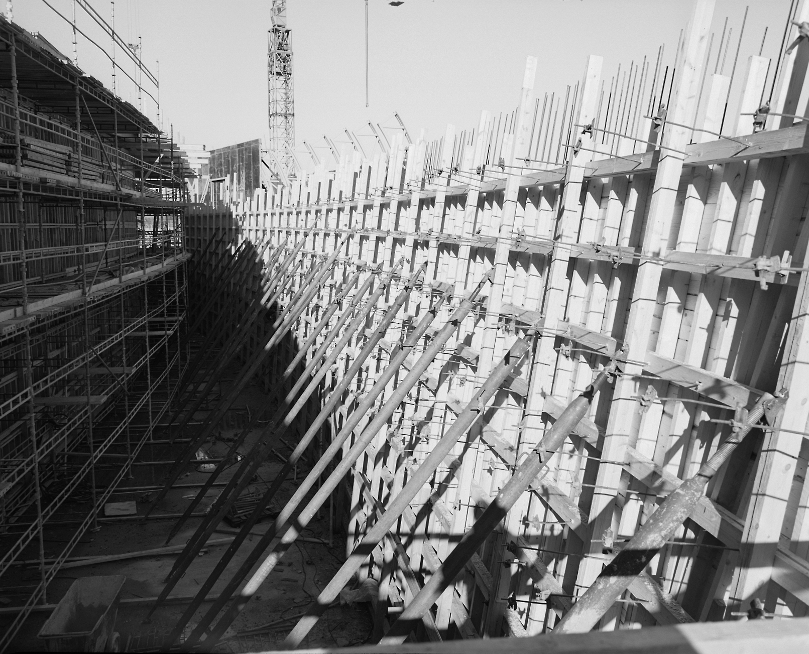 Kiasma’s lobby in autumn 1996. The lobby’s curving concrete wall is board-formed concrete that was cast in situ. This challenging construction project was awarded the Concrete Structure of the Year in 1997. Kiasman aula syksyllä 1996. Aulan kaareva betoniseinä valettiin paikalla lautamuotteihin. Haastava rakennustyö palkittiin Vuoden betonirakenteena vuonna 1997. Photo: Finnish National Gallery / Petri Virtanen